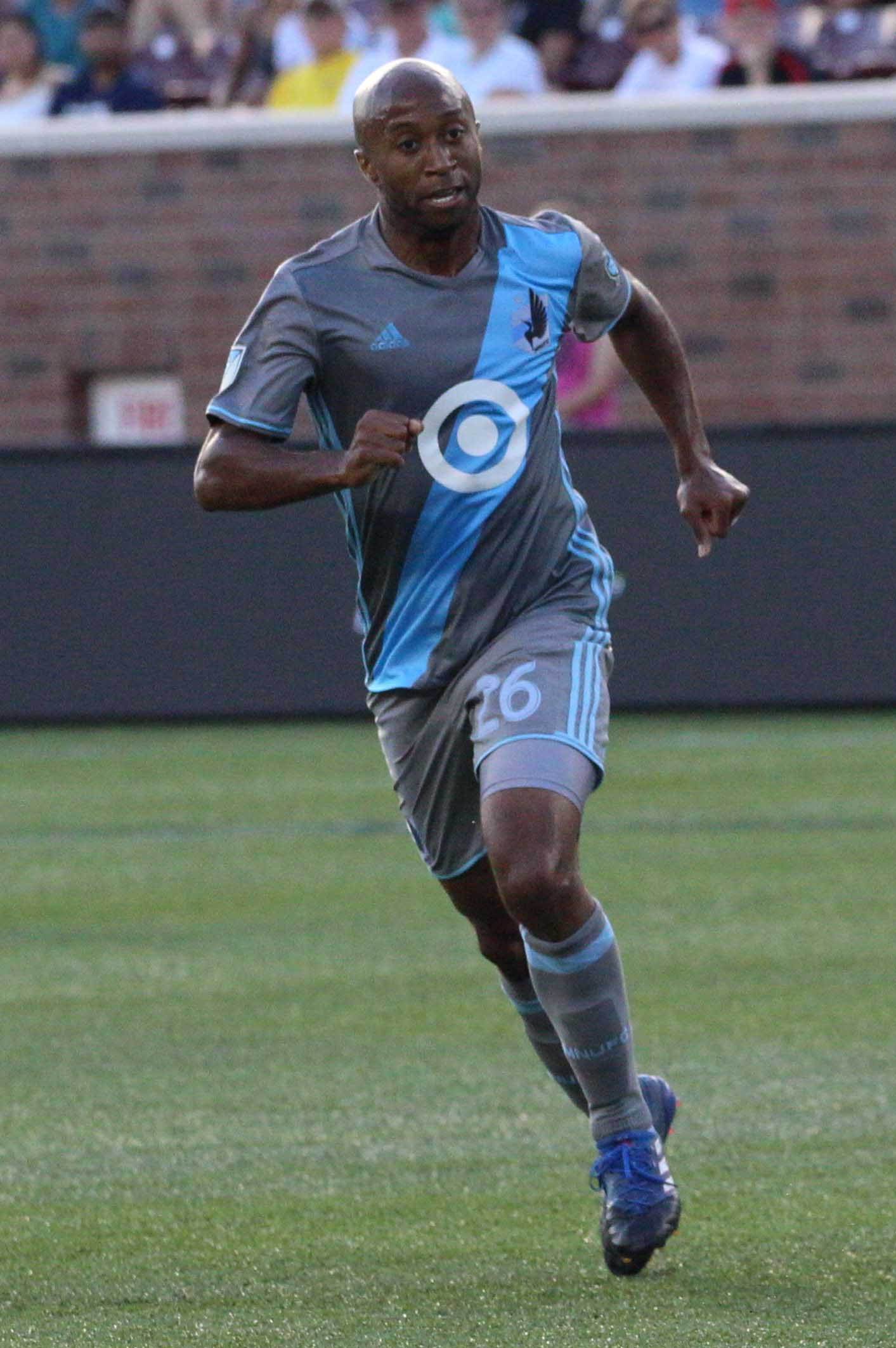 Wil Trapp - MLS - Columbus Crew